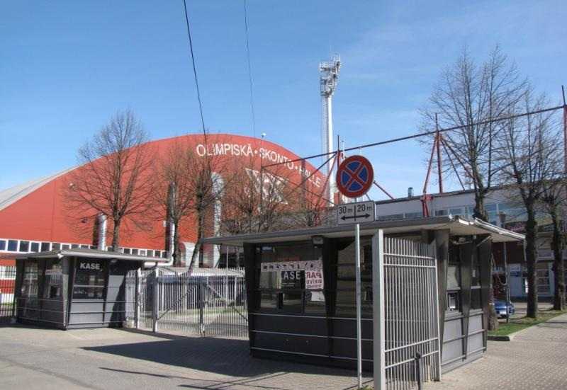 Olimpiskā Skonto halle in Riga, Latvia.